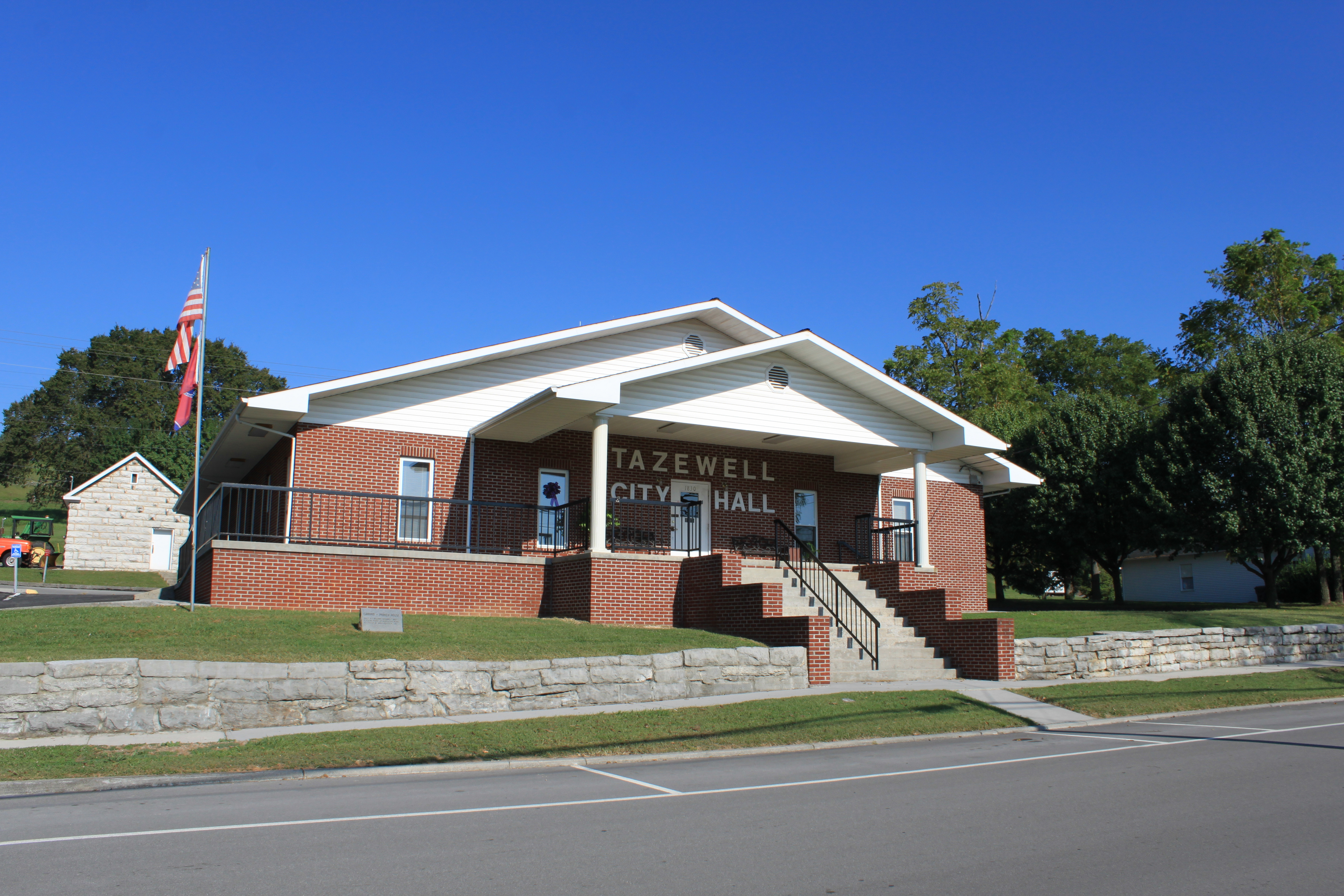 Tazewell Tennessee City Hall, 1830 Main Street.